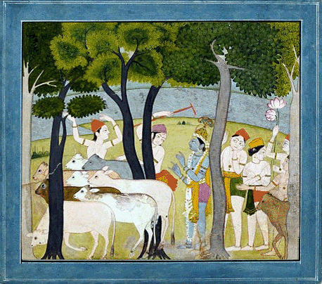 Krsna and the Cowherds Basohli School, Kulu, c. 1790